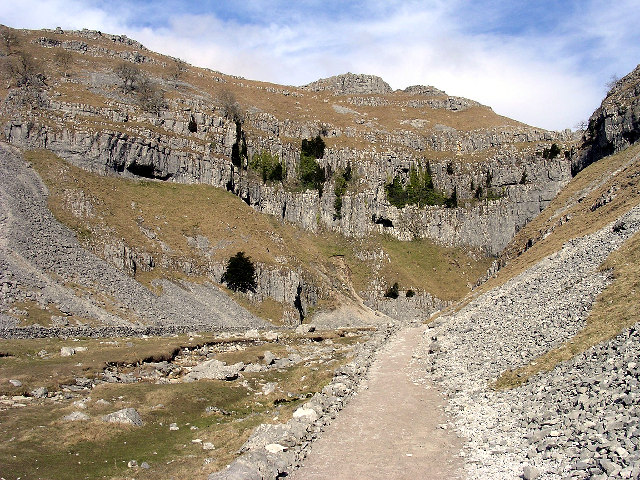 Gordale Scar. Gordale Scar is reckoned to have been Tolkien's inspiration for Helm's Deep in 'The Lord of the Rings'